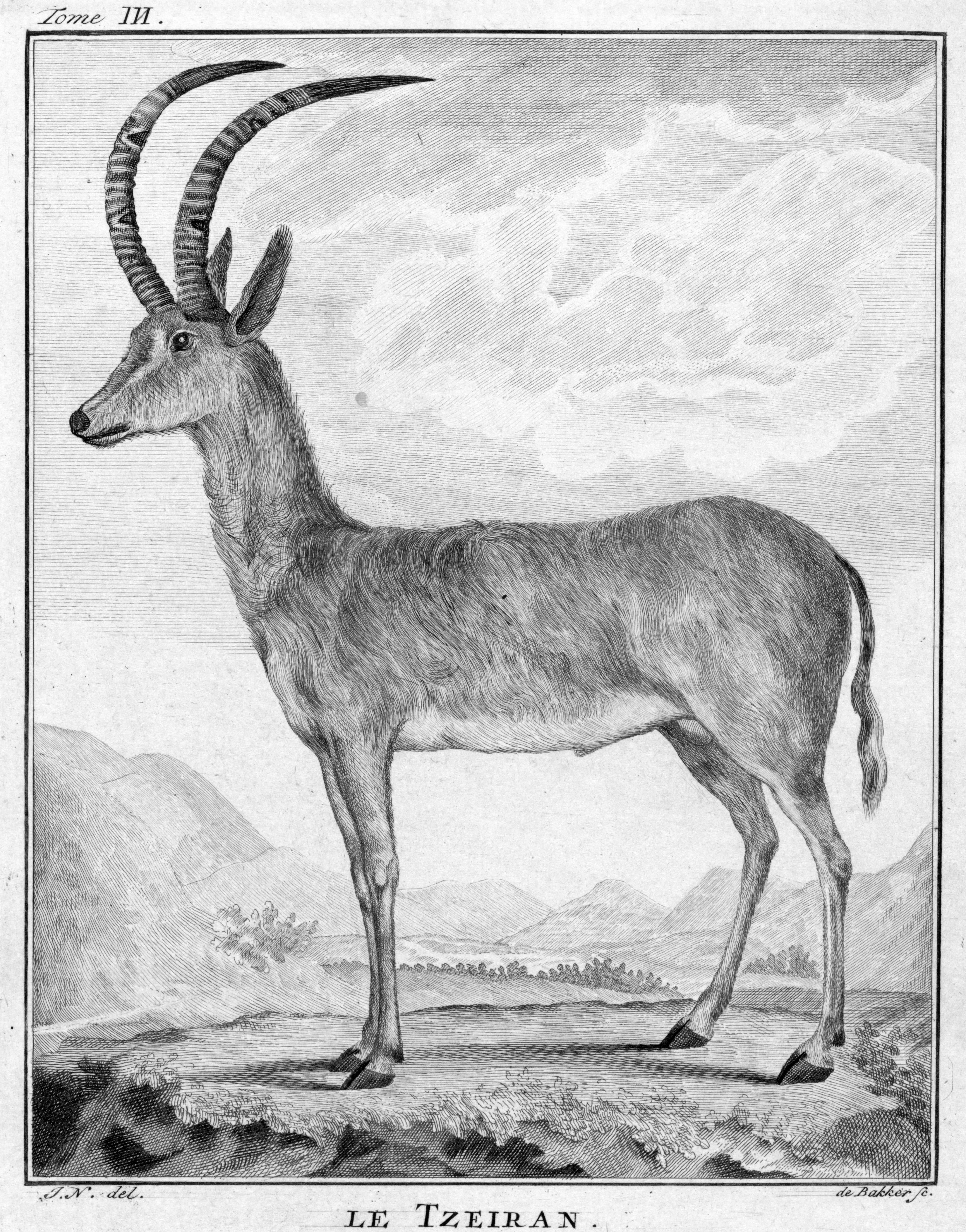 Bluebuck, Hippotragus leucophaeus. The third drawing made while the animals still lived was by Allamand in 1778. This drawing was made of the animal that has come to define blue antelopes world wide – the ‘type’ specimen in Leiden, the Netherlands. Indeed, the degree to which it closely resembles its model is striking (see Husson and Holthuis, 1969, Plates 2 and 3). Variants of this drawing were published by Buffon (1782), Schreber (1785) and Shaw (1801). Presumably this drawing was made from the mounted specimen. Had Klockner, the taxidermist, and Allamand, the artist-naturalist, seen living animals?